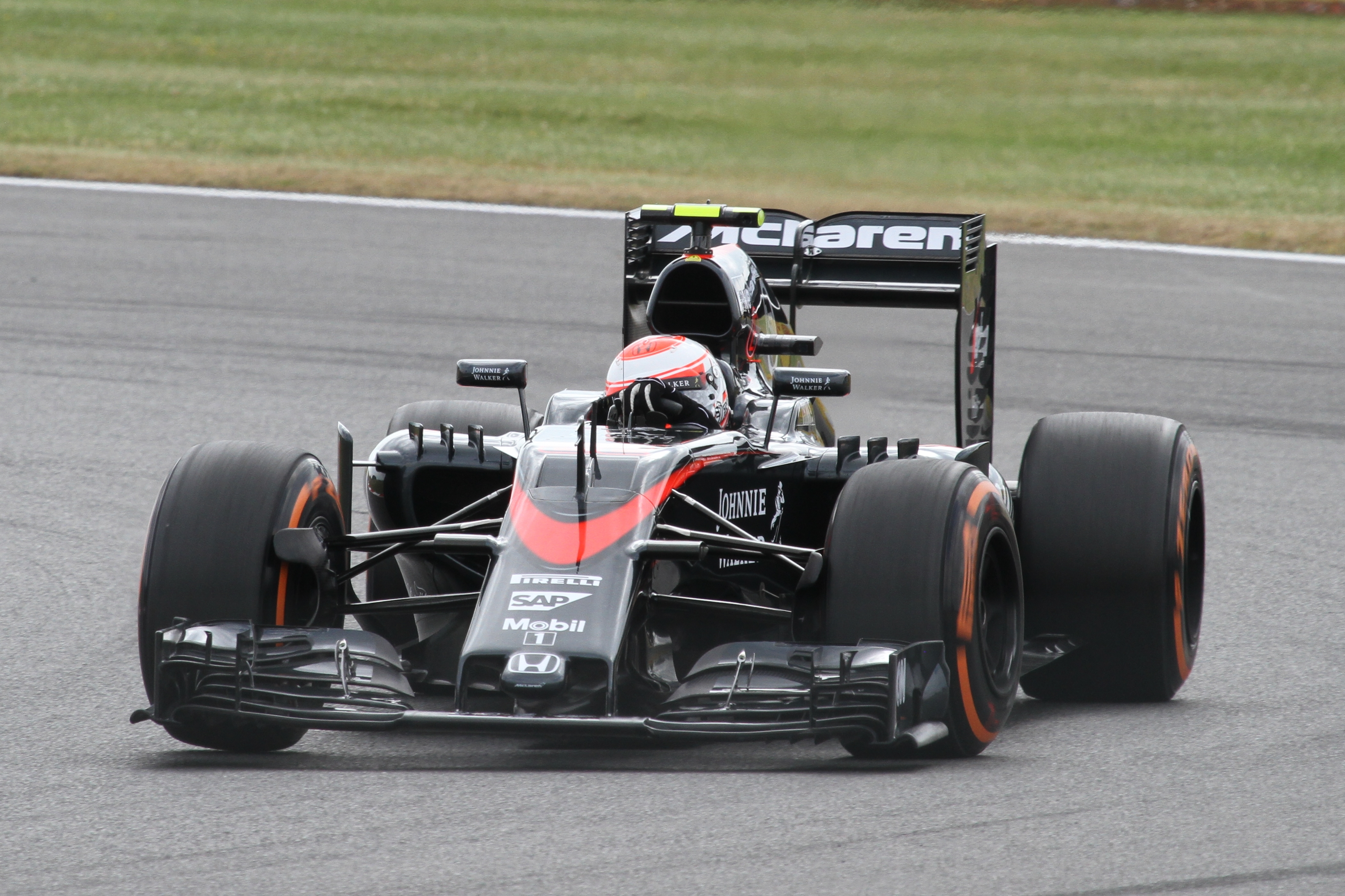 Jenson Button at the 2015 British Grand Prix